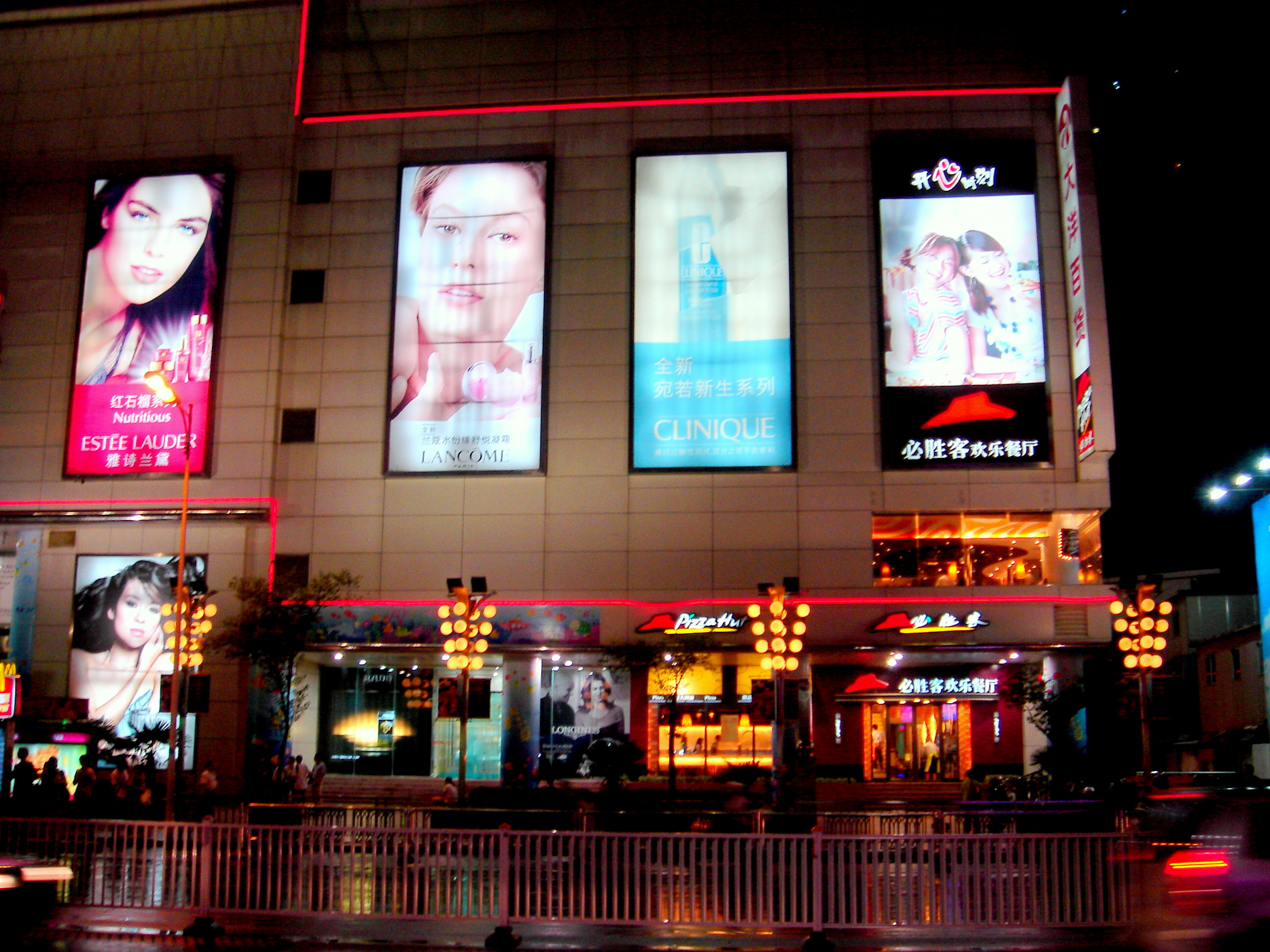 Grandocean in Nanjing (I uploaded the file to Flickr on August 9,2009.